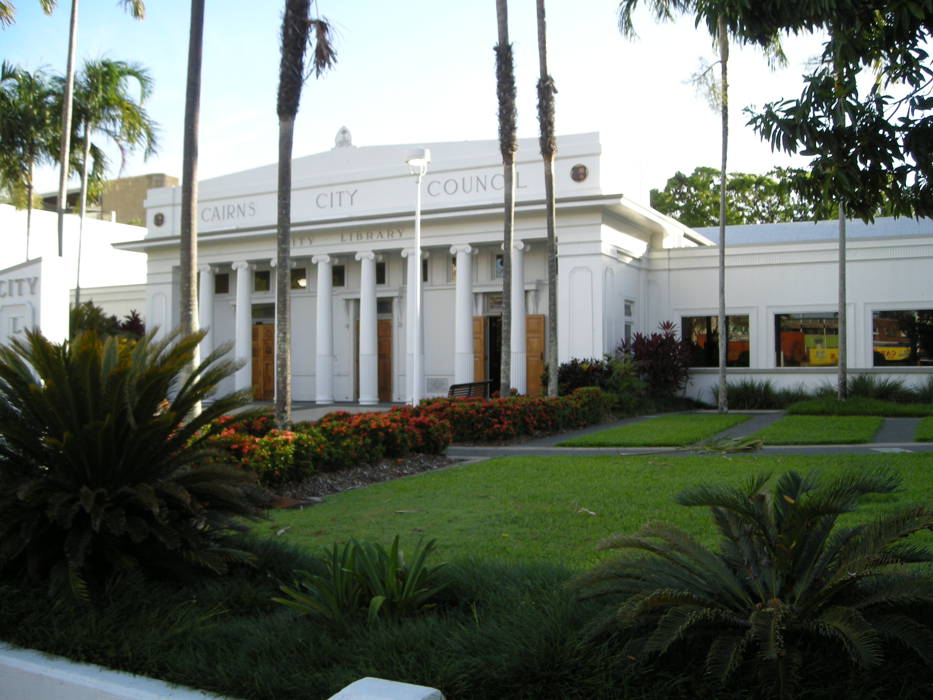 Cairns City Library, formerly Cairns City Council Chambers.